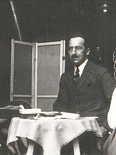 Photo of Dutch painter Piet Mondriaan